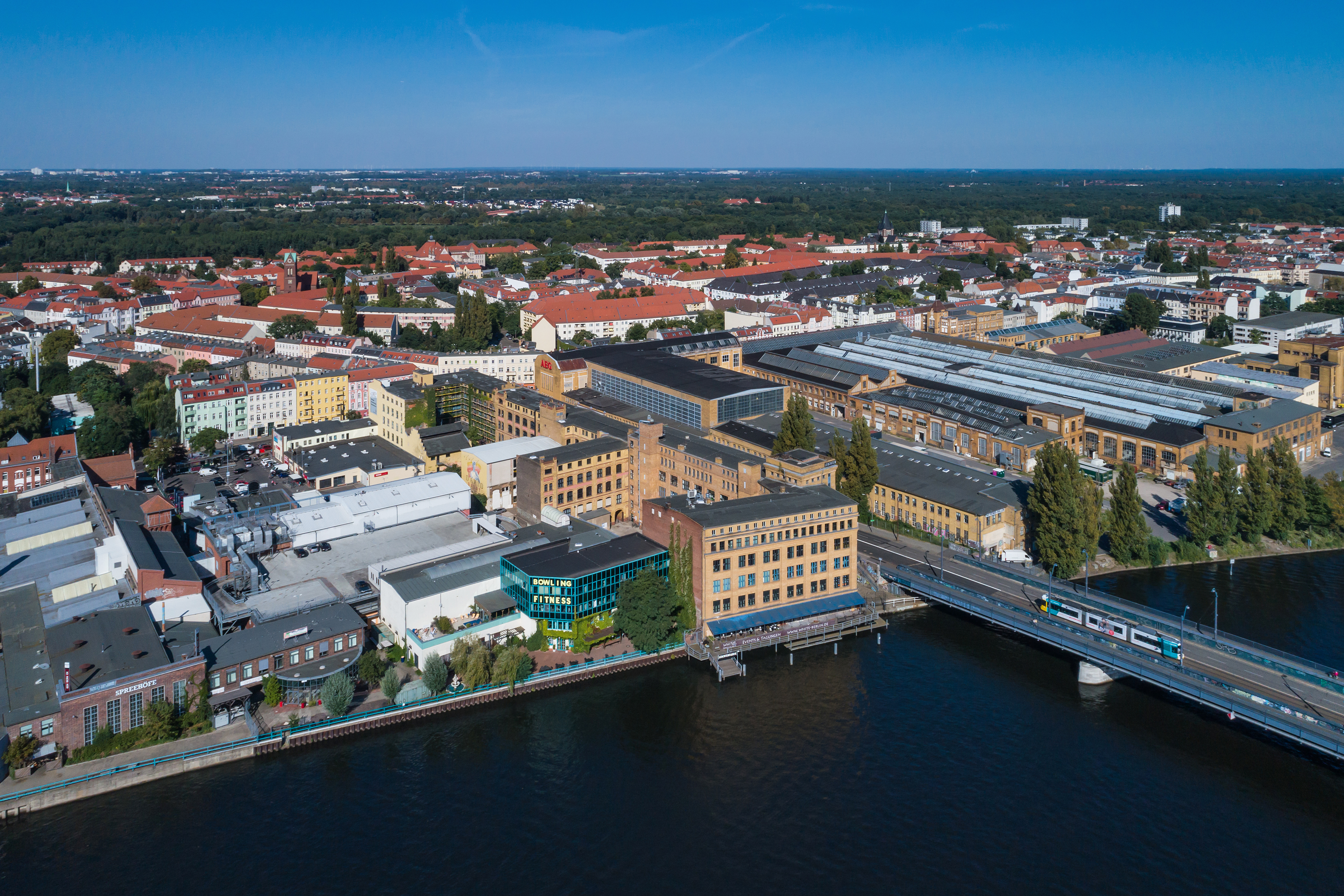 Aerial photo of Oberschöneweide in Berlin (Germany)